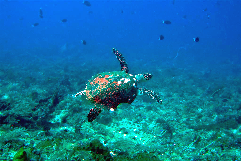 Turtle